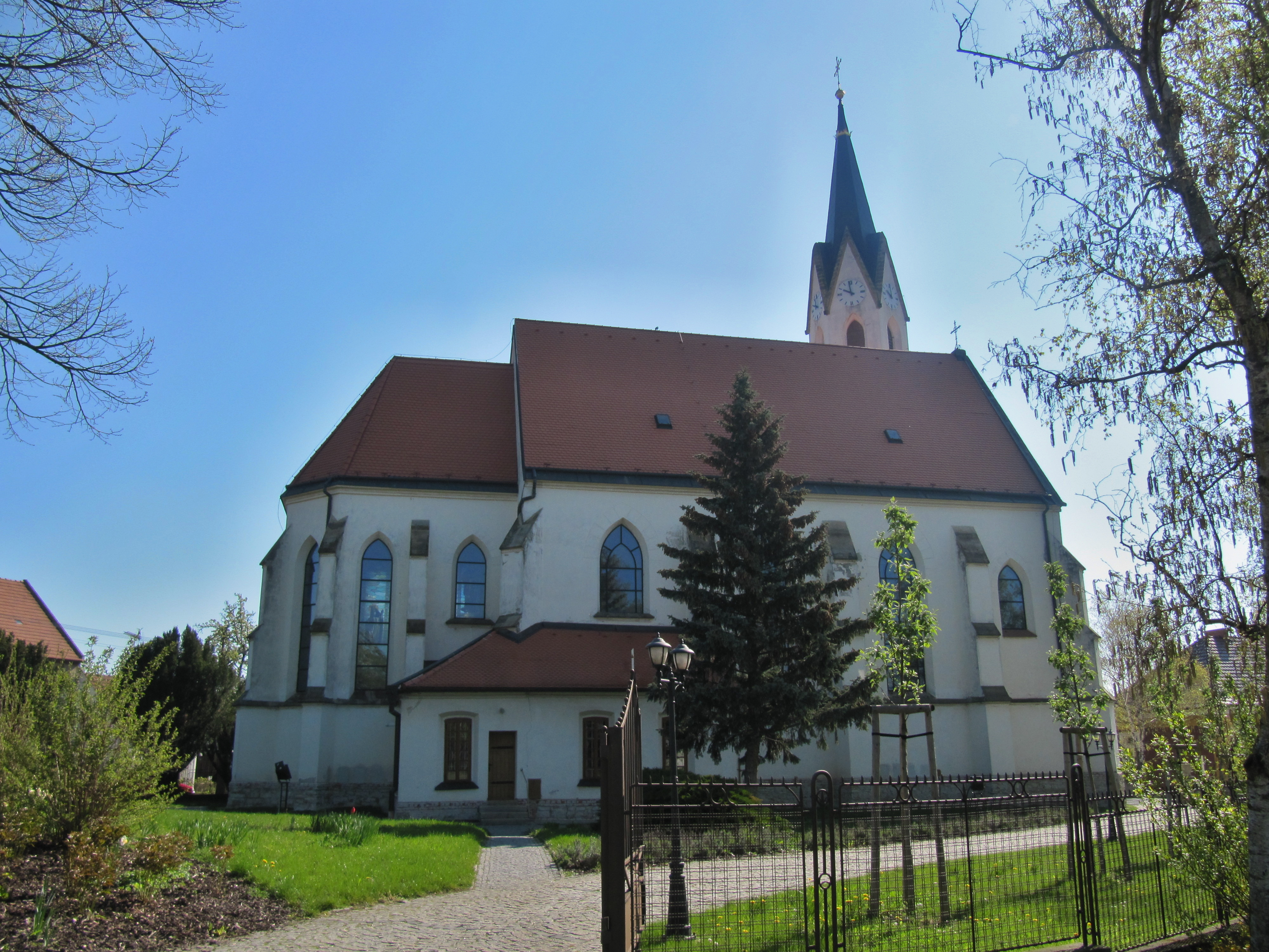 Dolní Němčí, Uherské Hradiště District, Czech Republic. Church of Saints Philip and James